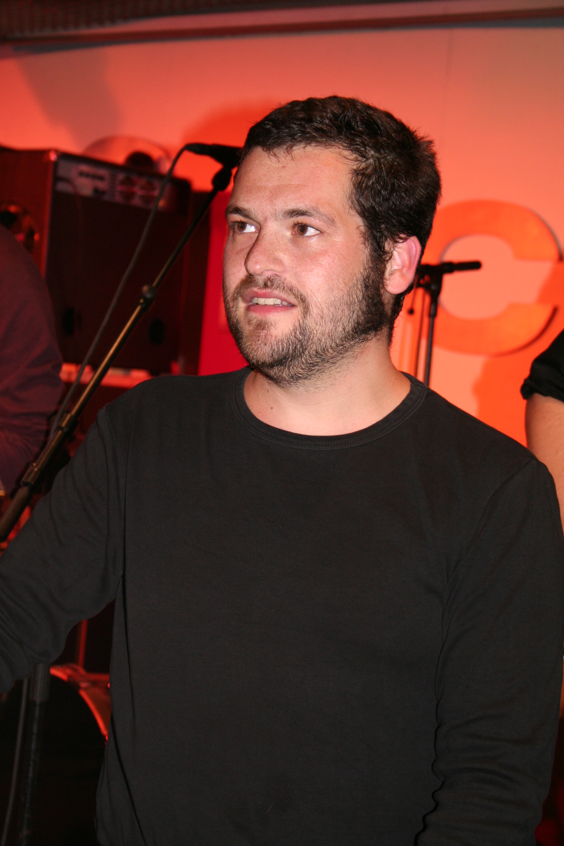 Simon Mimoun during show-case with Debout sur le Zinc at Fnac des Halles (Paris, France).